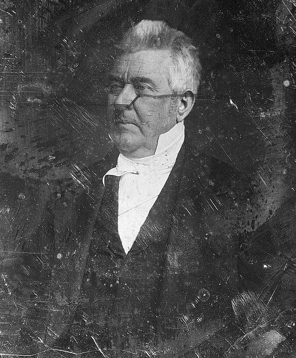 John M. Clayton, half-length portrait, three-quarters to the left